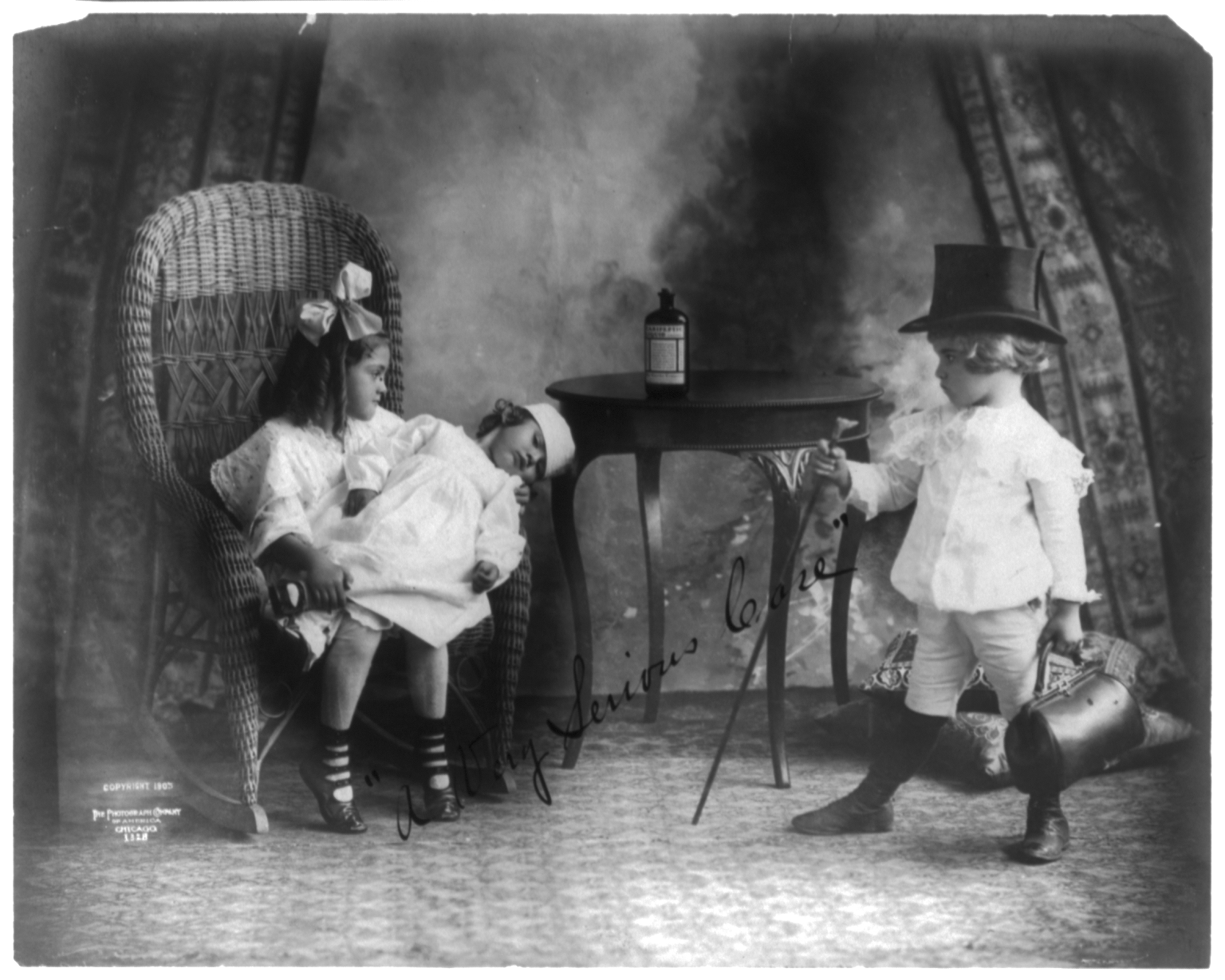 Girl holding smaller girl with bandage on her head, with small boy wearing top hat and holding walking stick and bag playing doctor.